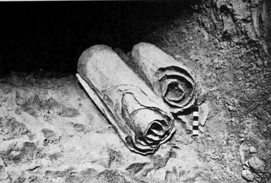 Two scrolls from the Dead Sea Scrolls lie at their location in the Qumran Caves before being removed for scholarly examination by archaeologists.